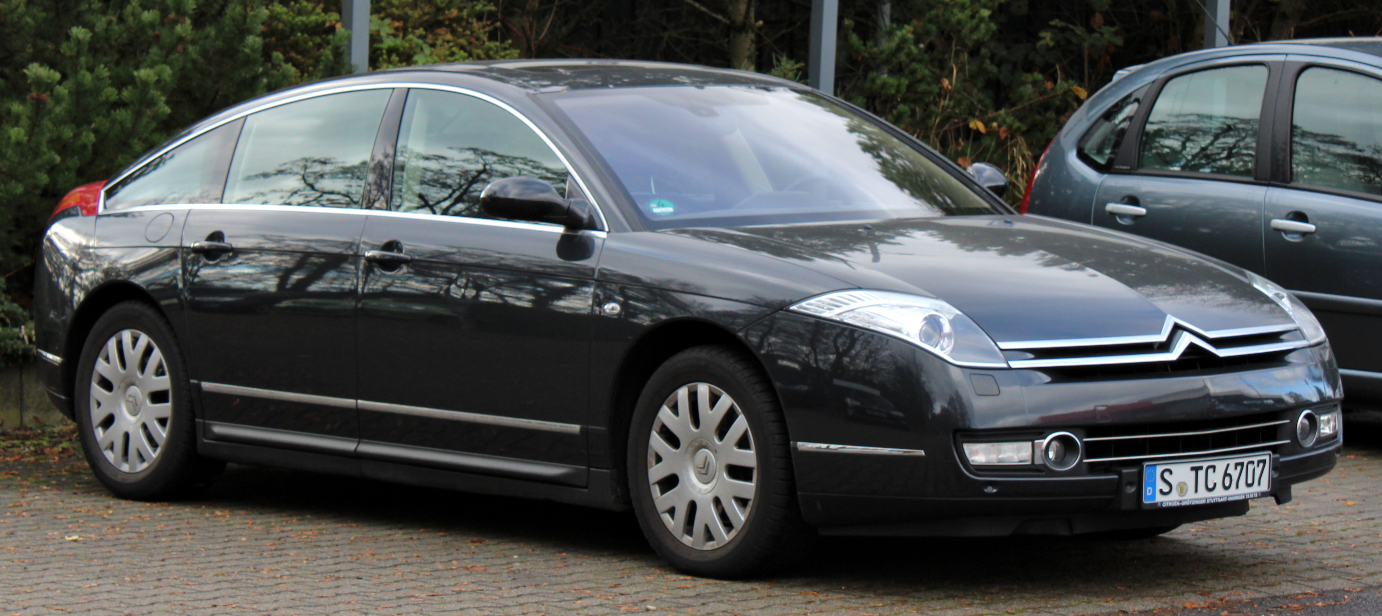 Citroën C6 in Stuttgart-Vaihingen